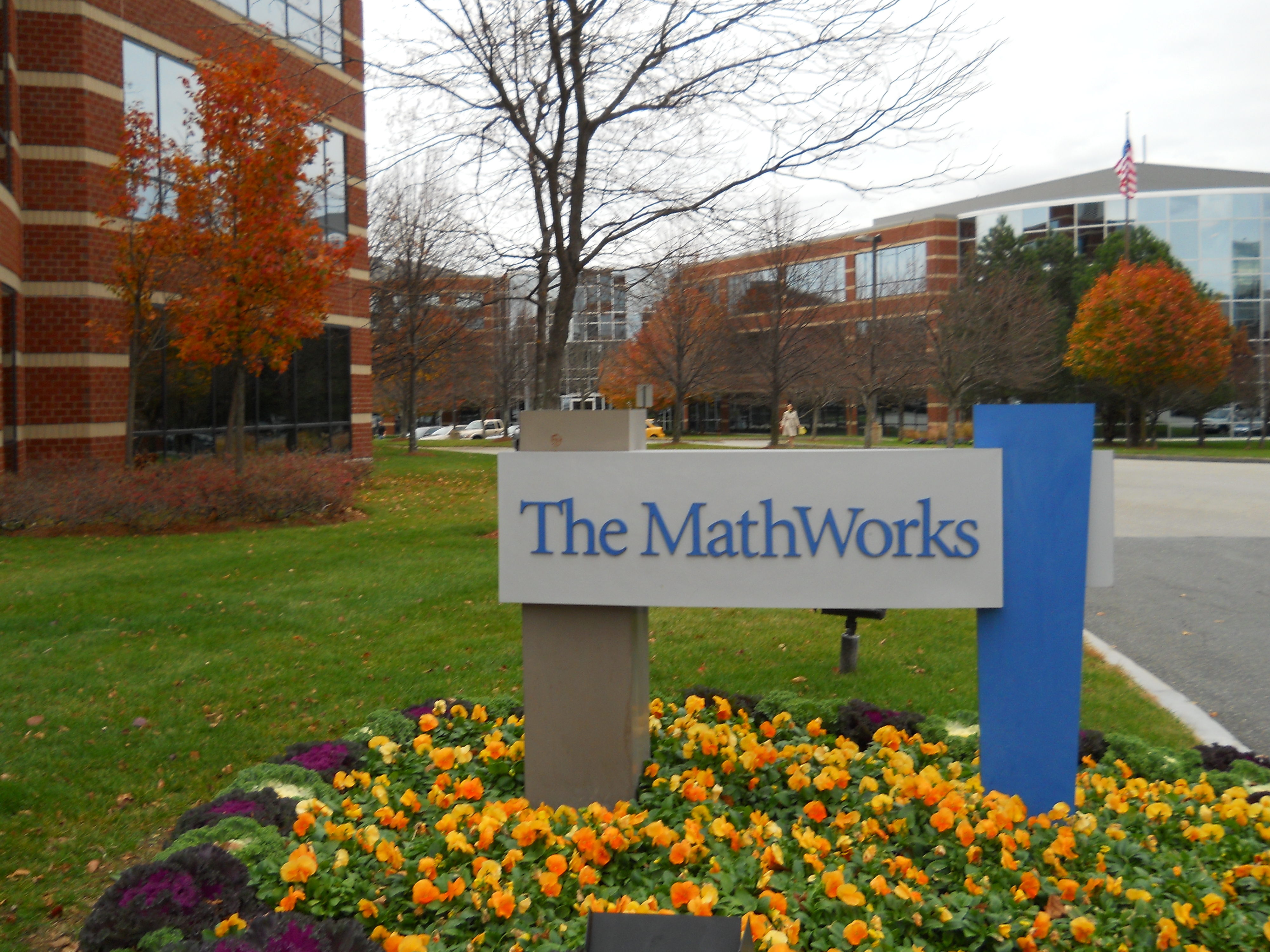 Main entrance of Mathworks campus, Natick MA